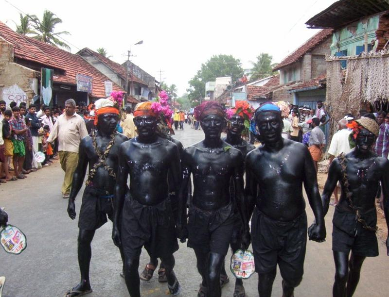 Men with body painted during Tattamangalam Kuthira vela ( Angaadi vela celebrated once in every 2 years )